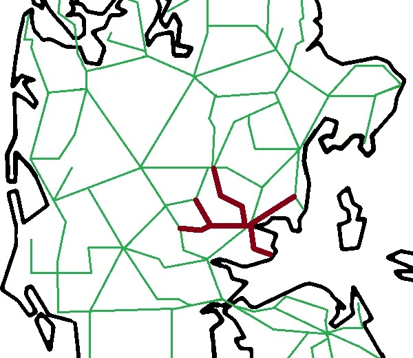 Map of railways in Middle Jutland in Denmark in 1952 with the private railway network Horsens Privatbaner in brown.